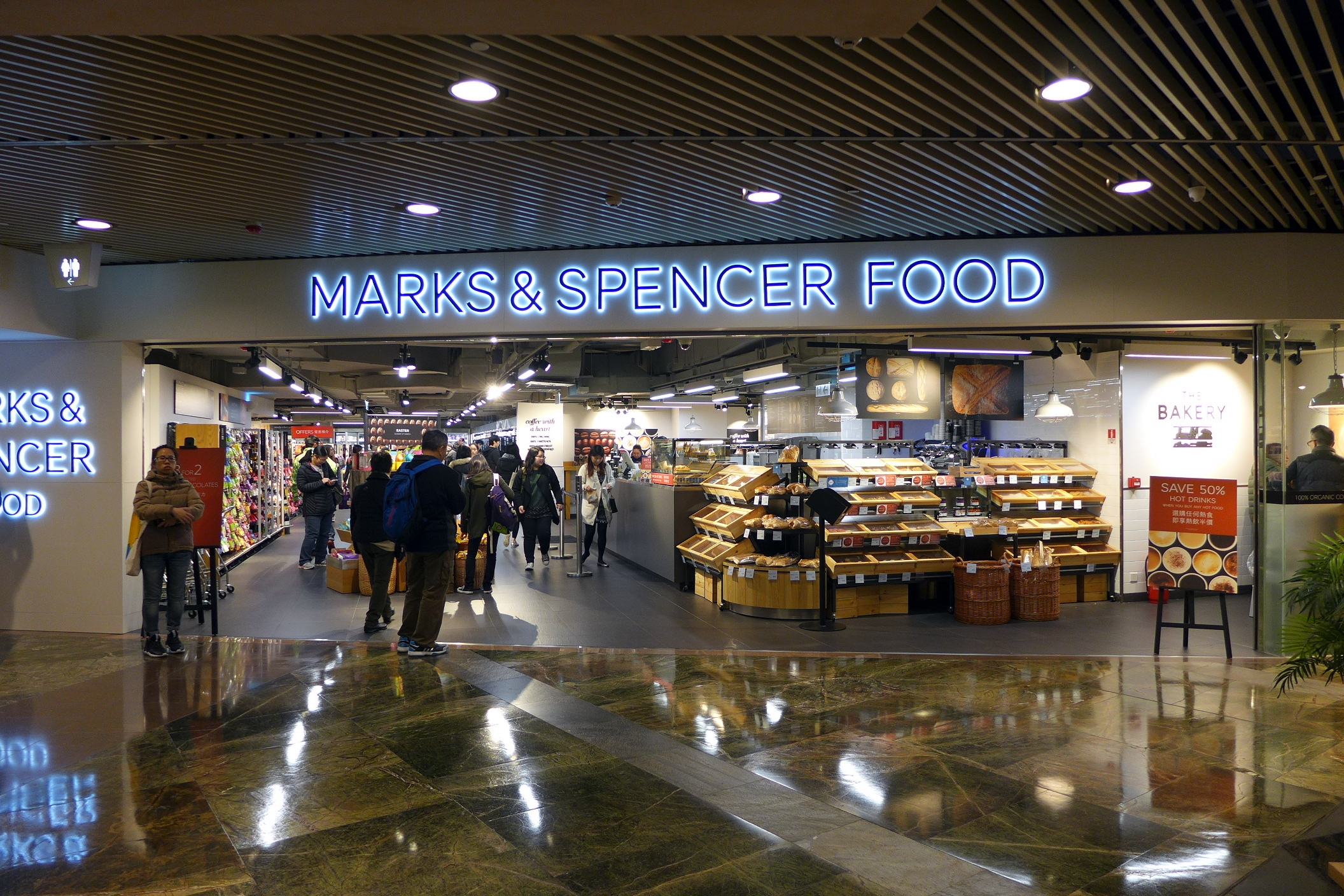 Marks & Spencer Food in Langham Place